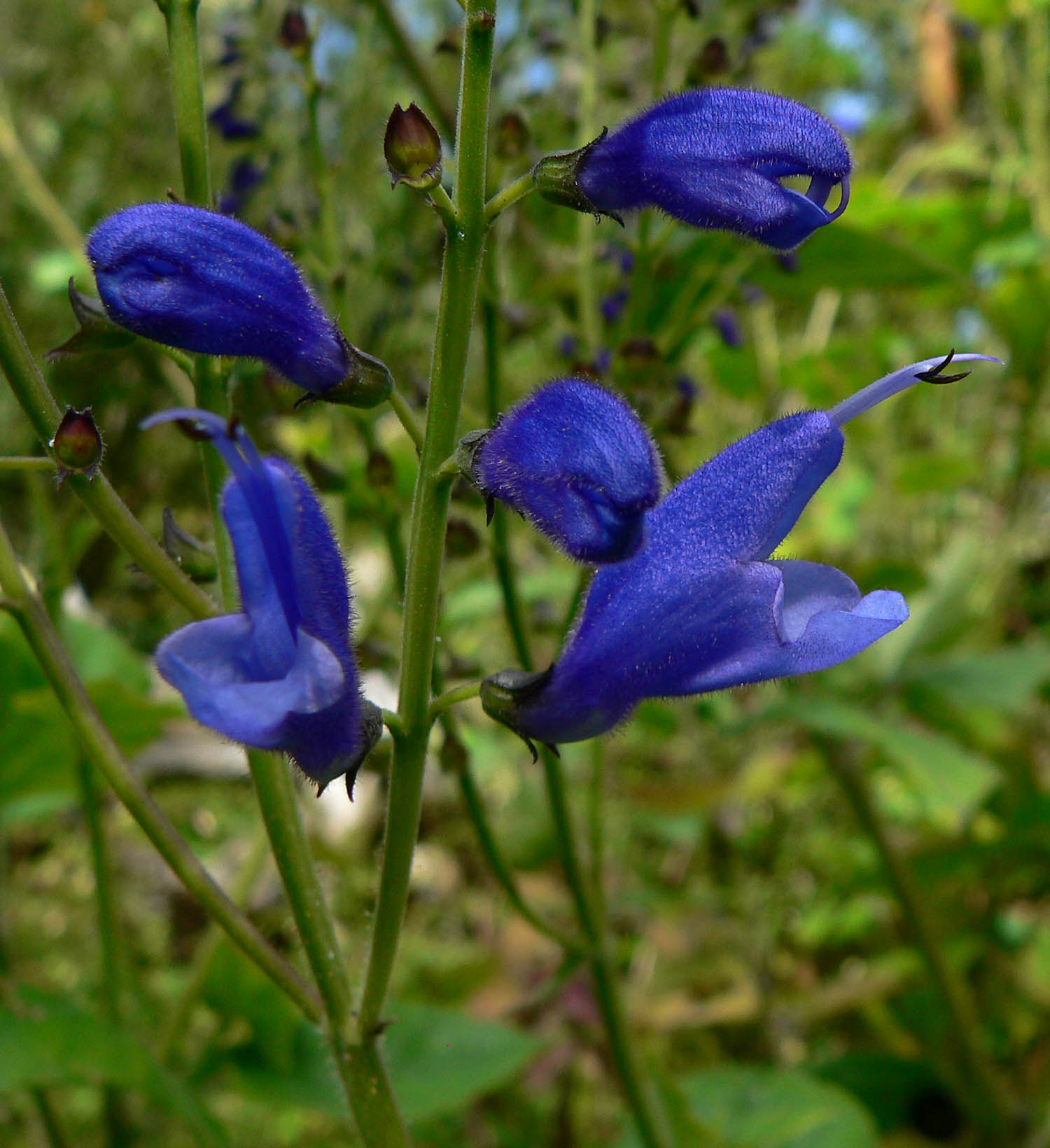 Photo of Salvia cacaliifolia at the San Francisco Botanical Garden